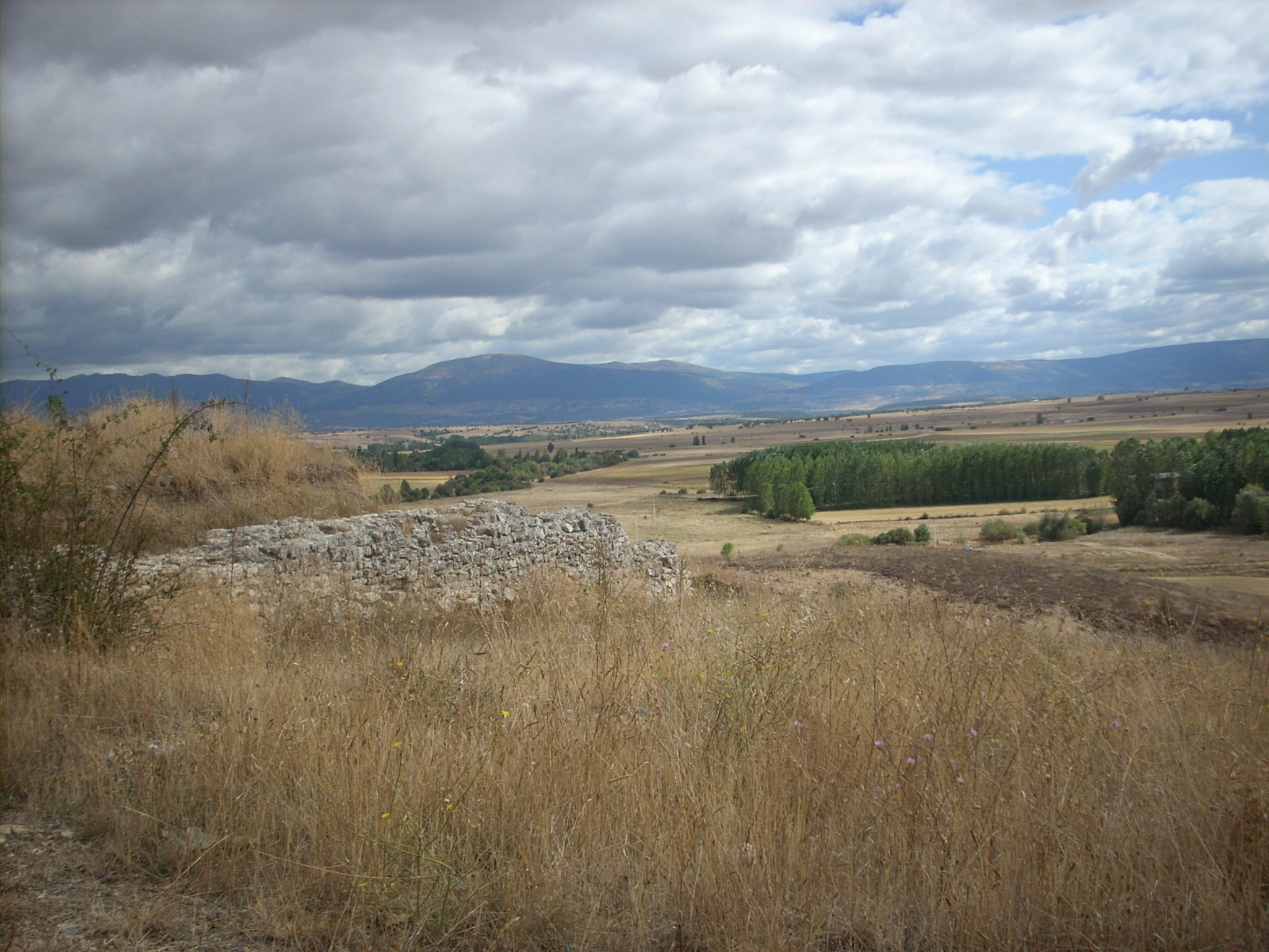 roman wall